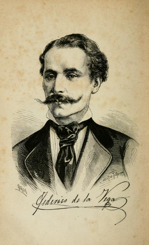 Federico de la Vega